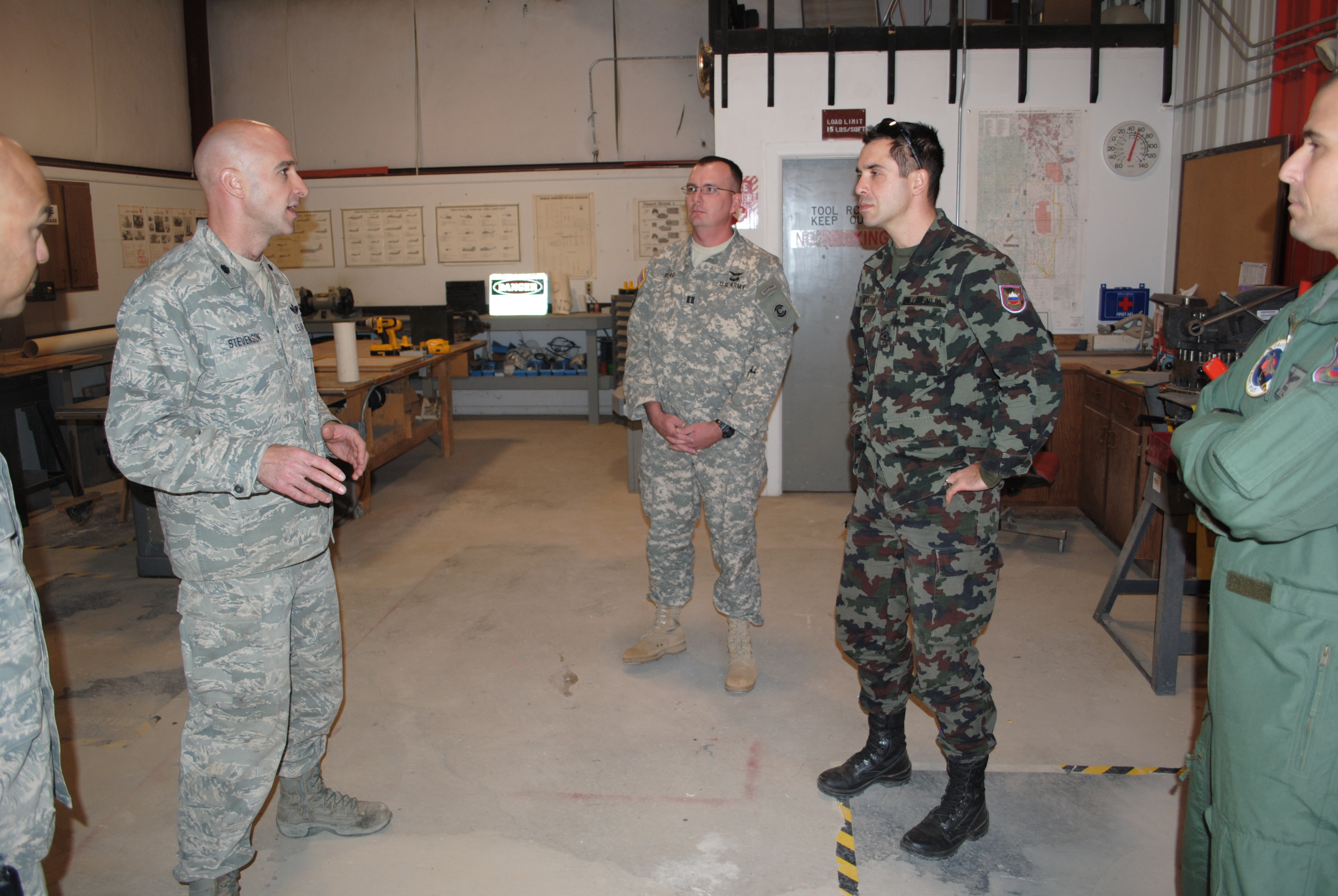 Lt. Col. John Stevenson, 140th Operation Support Squadron Airburst Range commander (left center) Stevens, Capt. Perry Read (center) and Slovenian armed Forces Sgt. 1st Class Darko Roth (right center) discuss training range management and how the Colorado Airmen manufacture their own training assets, such as targets, during a State Partnership Program visit to the 140th Operations Squadron's Airburst Range at Fort Carson, Colo., Oct. 31, 2012. The CONG and the Republic of Slovenia have been partner nations since 1993, when the program began. In addition to many other milestones in the program, Citizen-Soldiers from the CONG and soldiers from Slovenia have deployed together many times as members of the Operational Mentor Liaison Teams, now called Military Assistance Teams, to help train soldiers of the Afghan National Army.